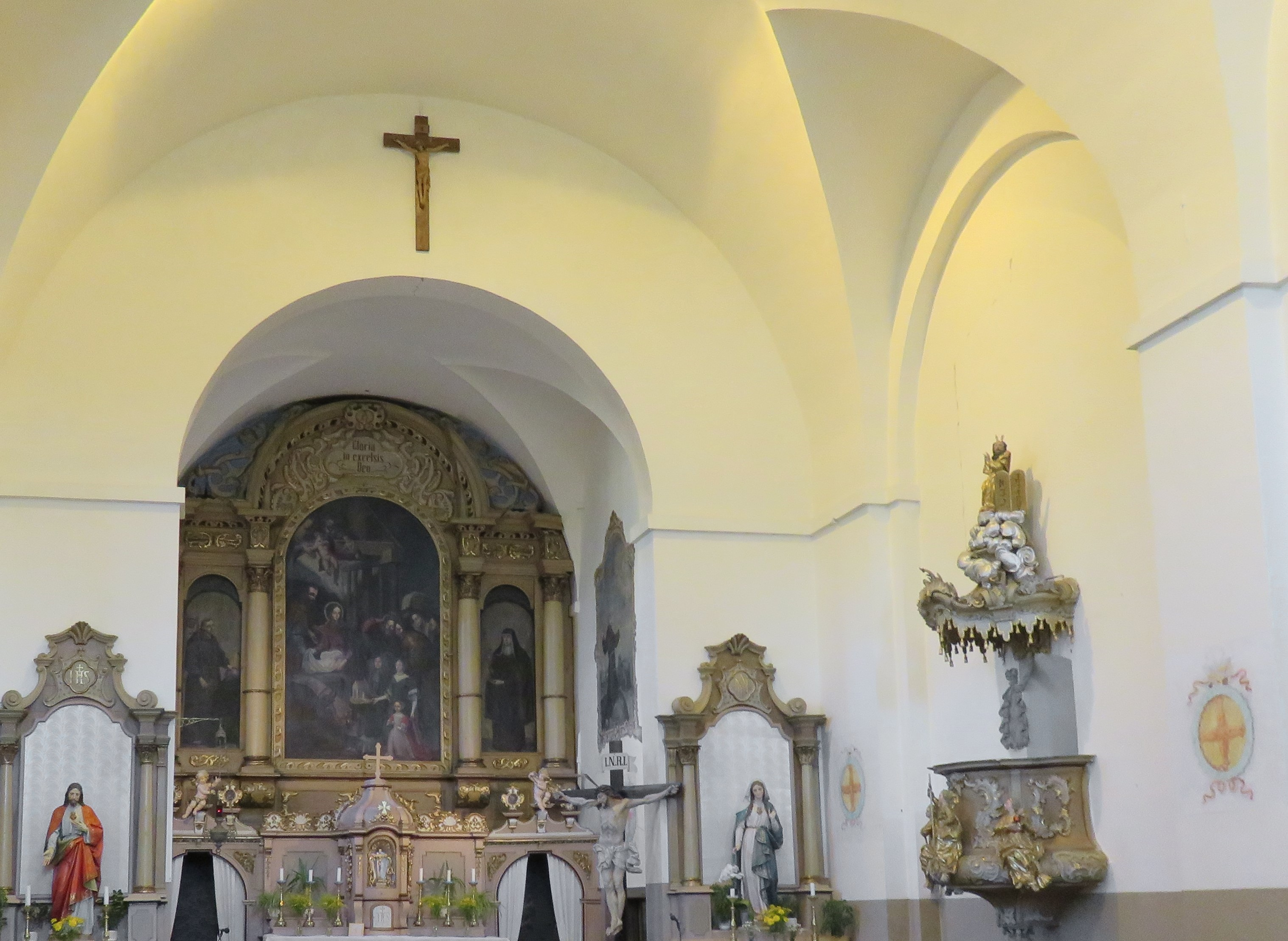 Interior of the Church of the Nativity of Christ (Opočno)